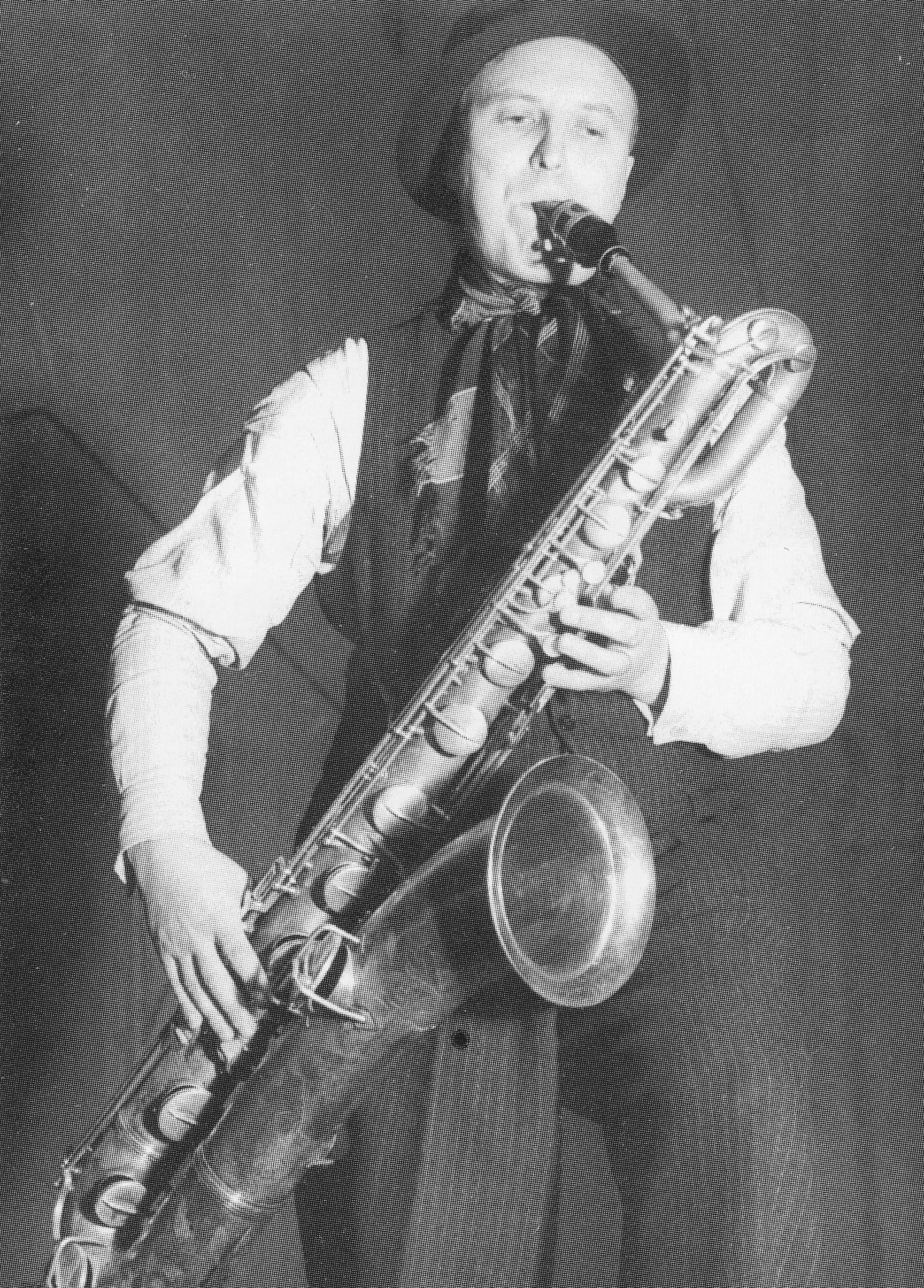 Eero Väre finnish singer